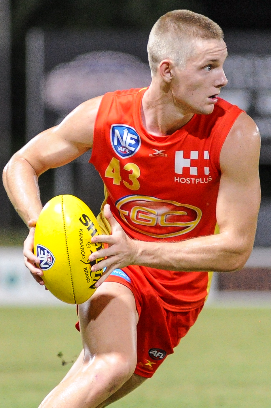 Max Spencer playing for the Gold Coast Suns' reserves in May 2017.